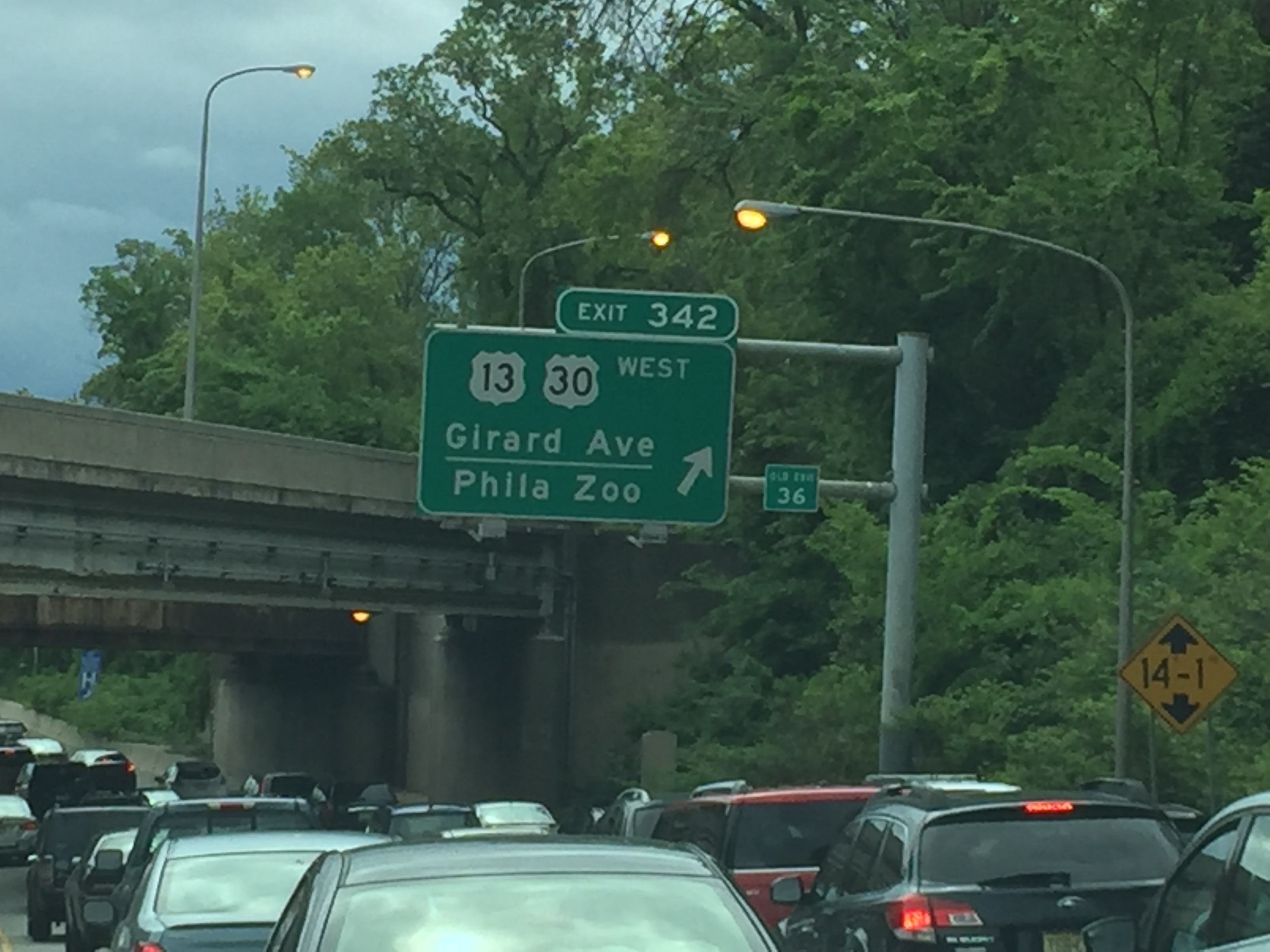 Girard exit